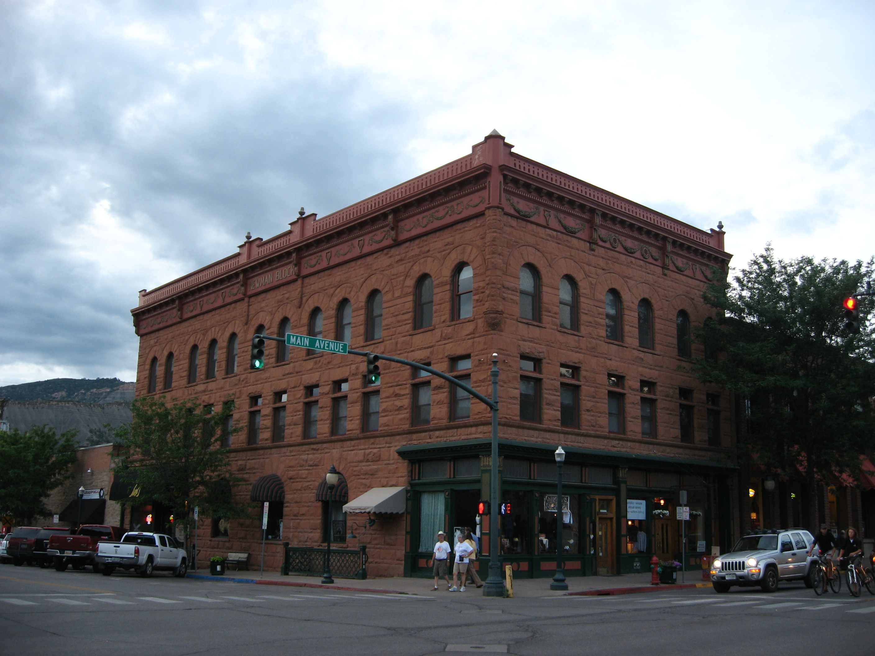 NRHP-listed Newman Block in Durango, Colorado.